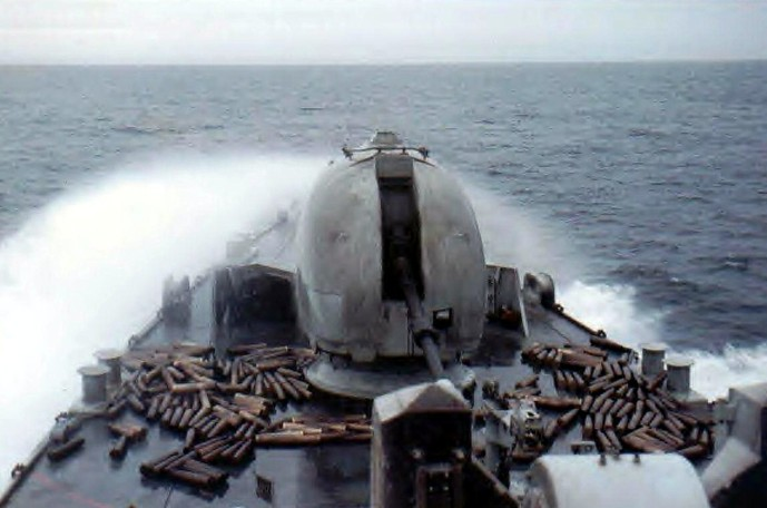 Spent shell casings from a naval gunfire support mission by HMS Cardiff (D108) on the night of 5 June, 1982, as part of the Falklands War. Photograph was taken the morning after on 6 June, also the top of her charred Sea Dart launcher can be seen bottom right. She fired 277 rounds that night and also shot down AAC 656 Squadron Gazelle XX377 in 'Blue on Blue' friendly fire incident killing four British servicemen.